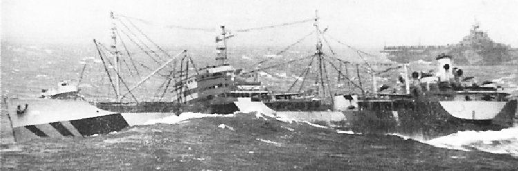 Carrier Raids in the East China Sea, January 1945: the U.S. Navy fleet oiler USS Pamanset (AO-85) struggles through an East China sea storm to refuel Task Force 38 on 13 January 1945. The aircraft carrier USS Ticonderoga (CV-14) is in the distance. Pamanset is painted in camouflage Measure 32 Design 3AO.